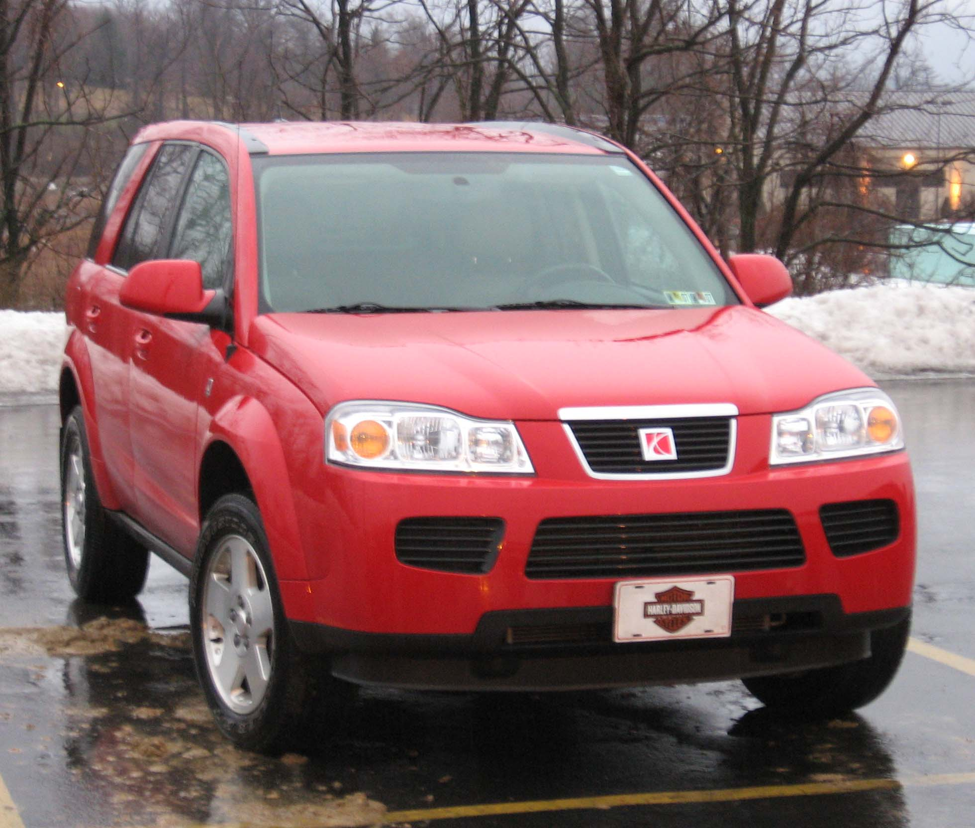 2006-2007 Saturn VUE photographed in USA.